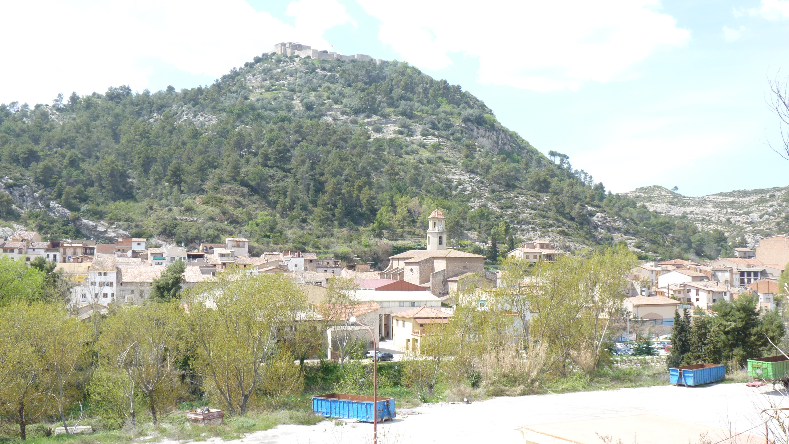 Castle of Claramunt, at the top of the hill, and the village at the bottom